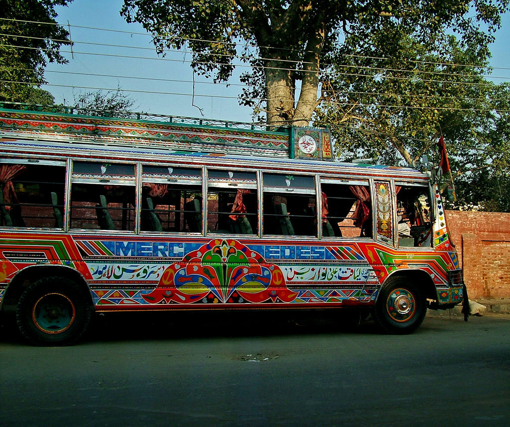 Decorated Mercedes bus in Lahore, Pakistan